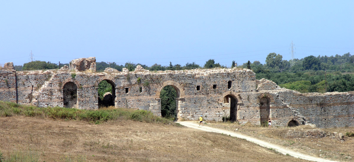 Late Roman/Early Byzantine fortification wall of Nicopolis in Epirus : the West wall and the Arapoporta seen from the East. Photography taken by Marsyas 08:39, 22 September 2005 (UTC)